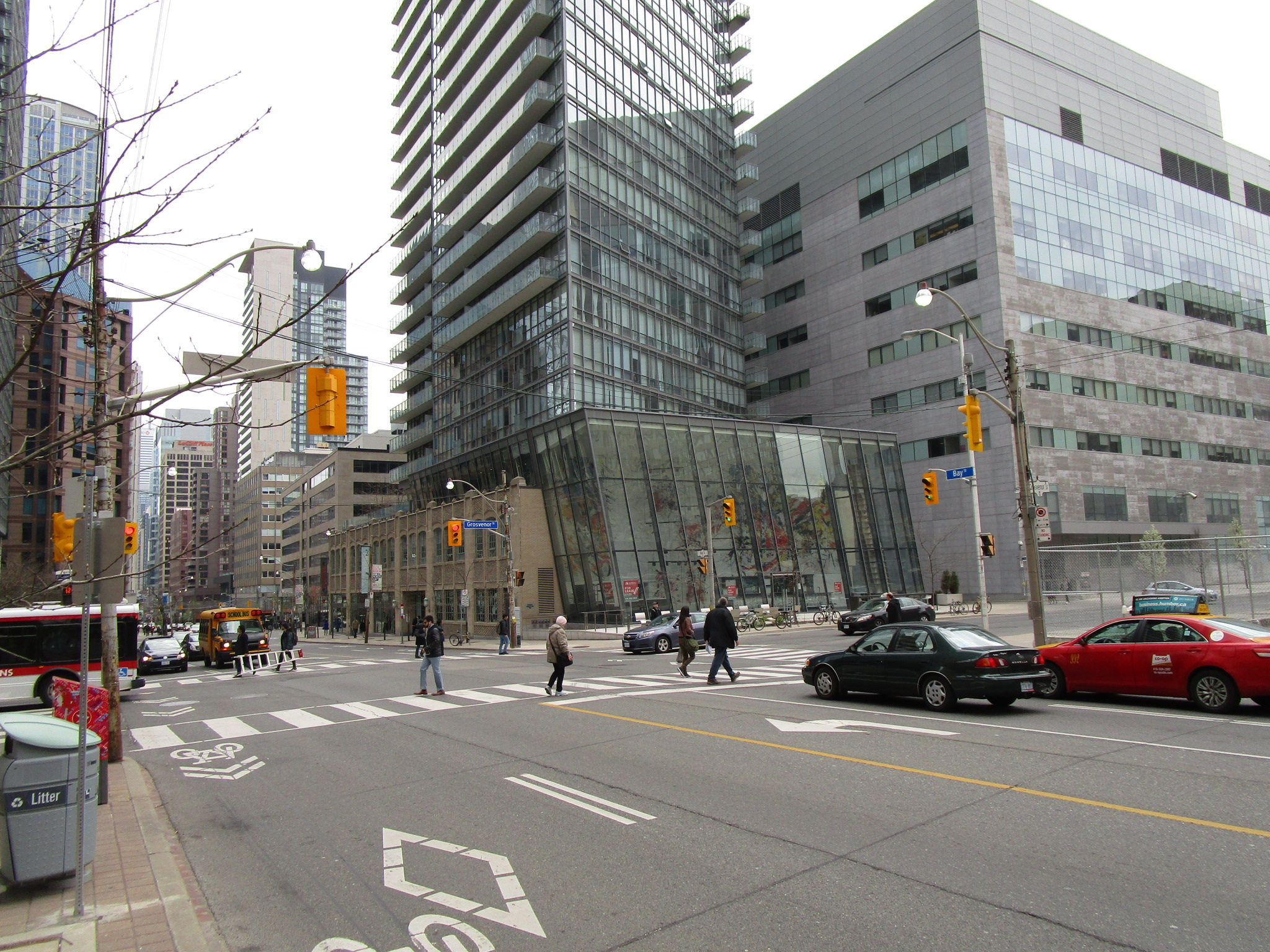 North facade of the Burano, 2017 05 12 -c